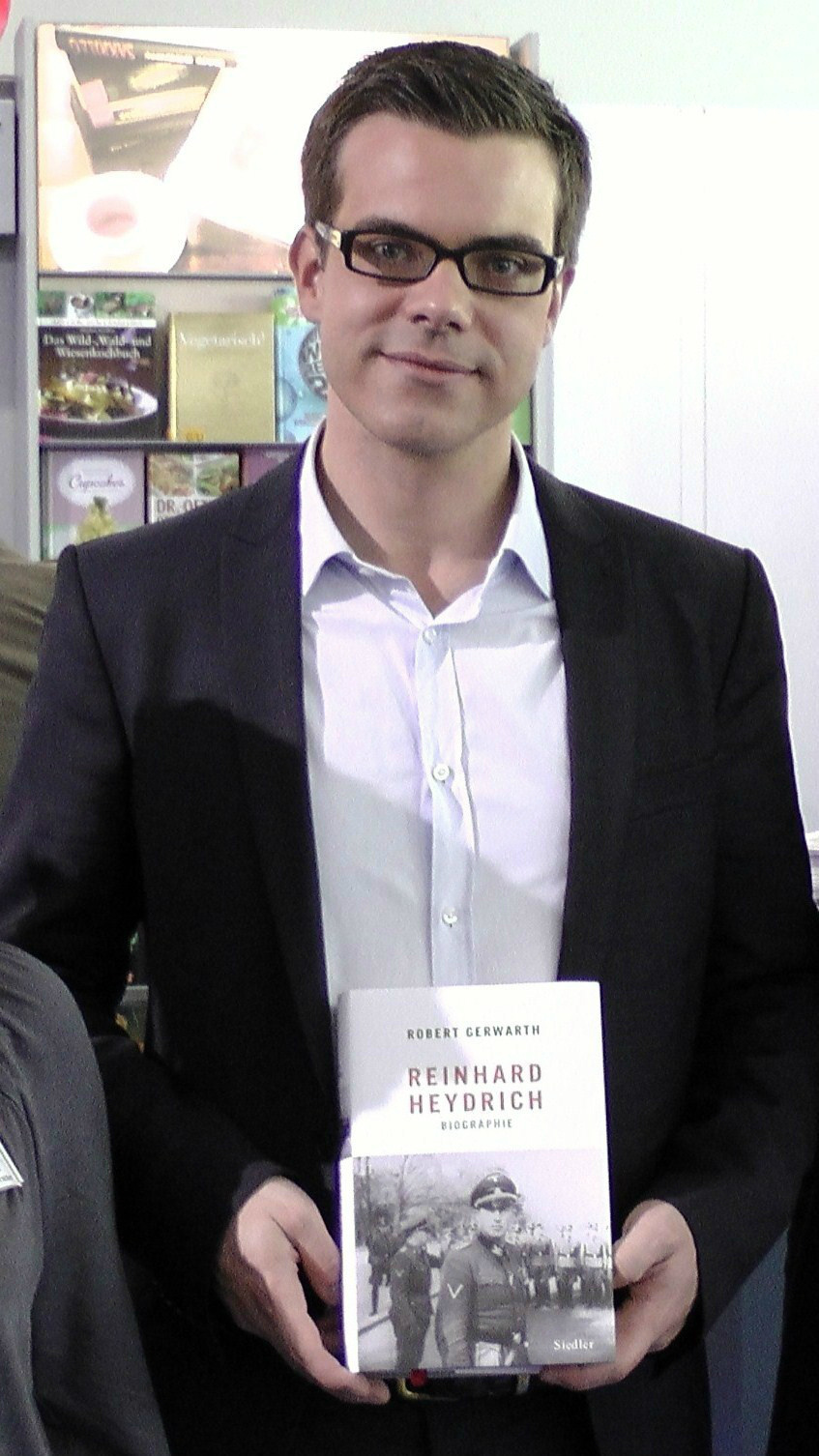 Robert Gerwarth, a German-British historian, writer and academic.